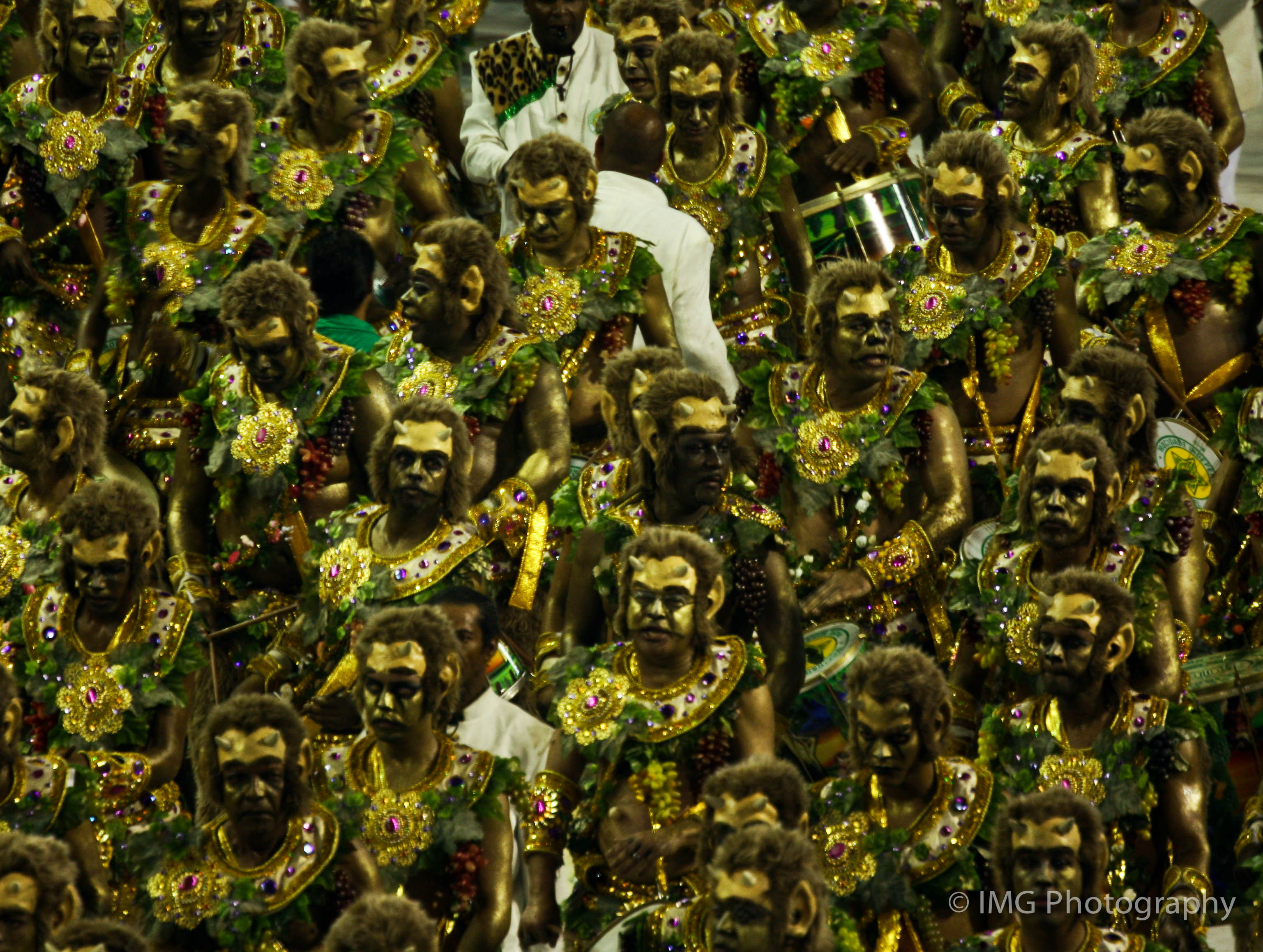 18th Wing: Fauns and Satyrs